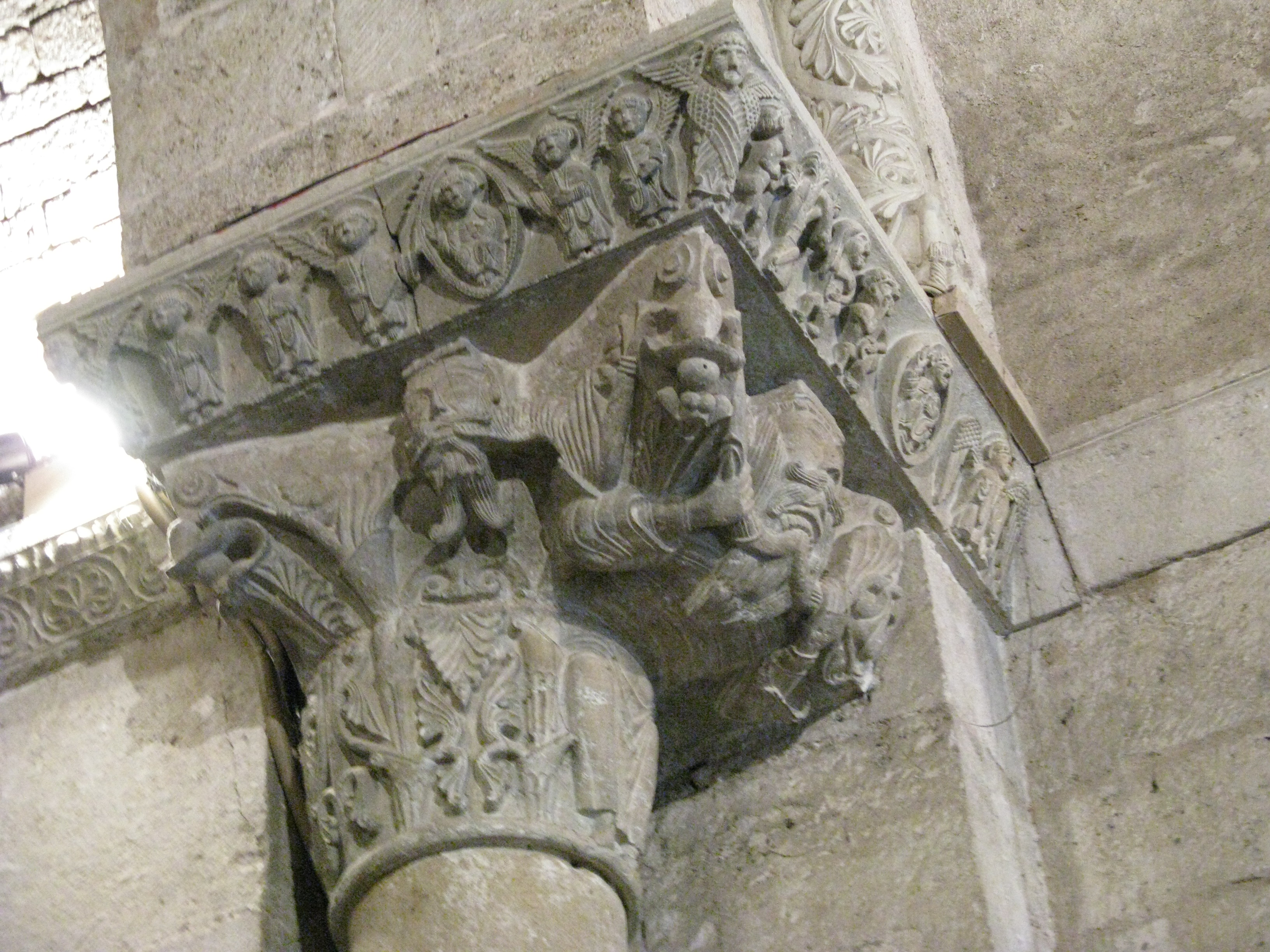 Right capitel in the victory arch of the romanesque church Santa Maria de Porqueres, Catalonia (scenes with Angels and scenes with Adam and Eve at the garden Eden)